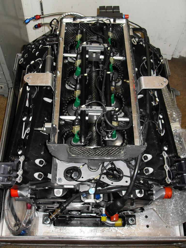 Image taken from the top of the Protech XD3 development engine, showing fuel rails, injectors and carbon airbox tray